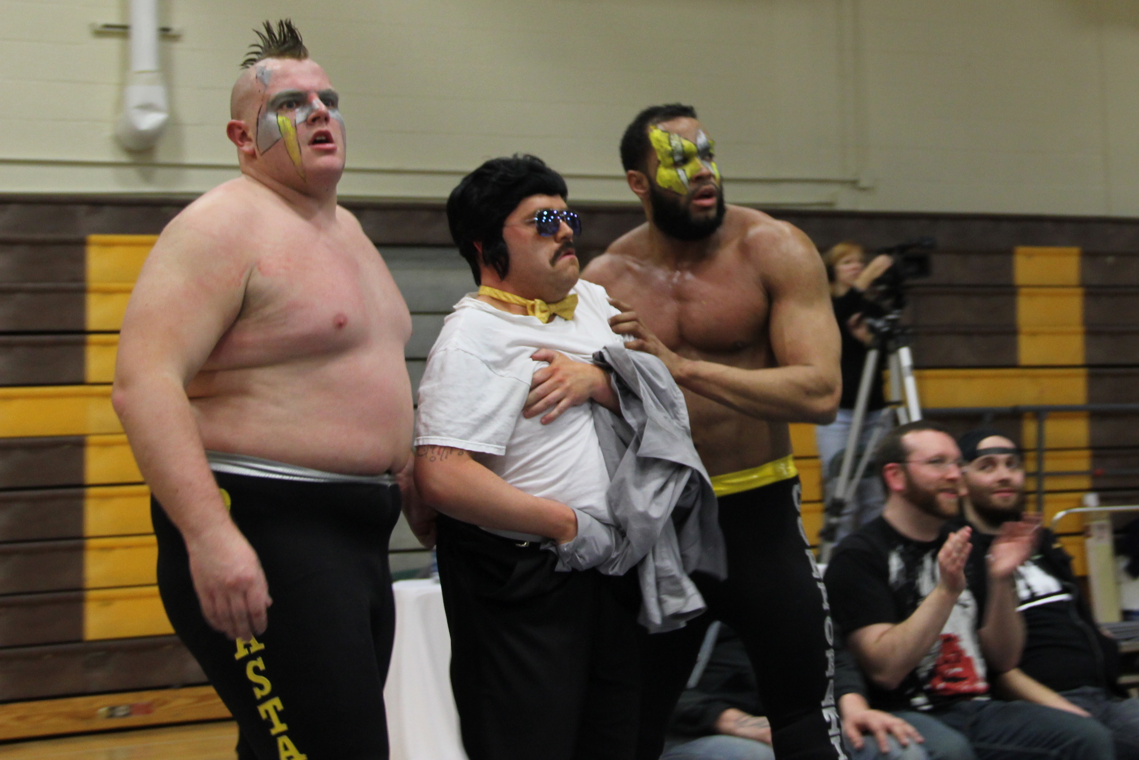 Professional wrestling tag team The Devastation Corporation (Blaster McMassive and Max Smashmaster) with their manager Sidney Bakabella at a Wrestling is Art event.